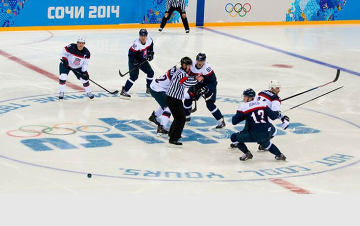 Slovakia vs USA hockey game at Sochi 2014 Winter Olympics